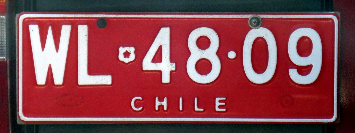 Chilean registration plate in format 2: Zona Franca